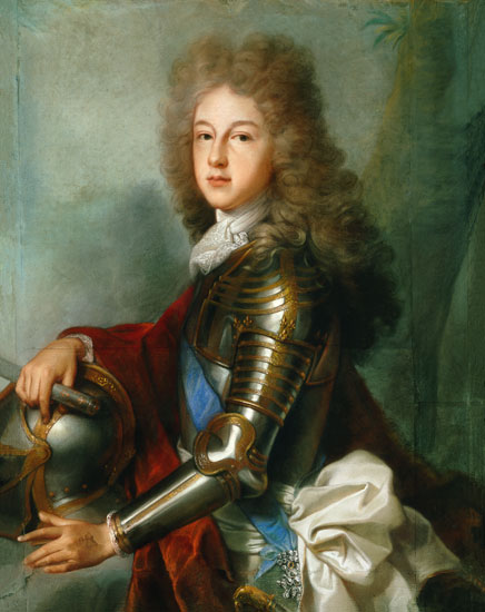 Portrait of Philip V of Spain (1683-1746)